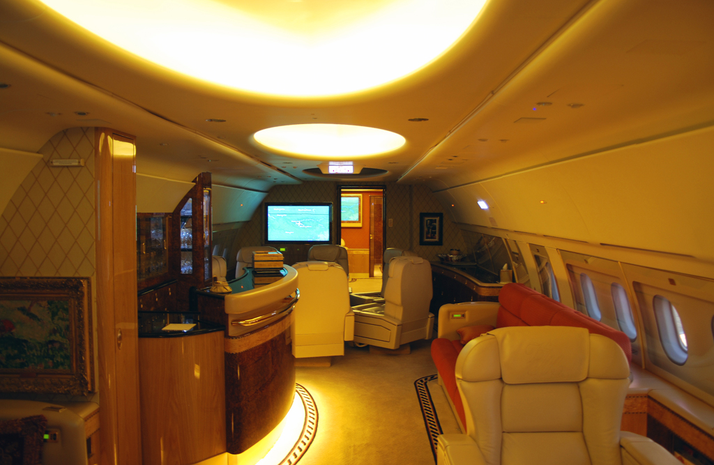 Doctor Vijay Mallya's personal aircraft.